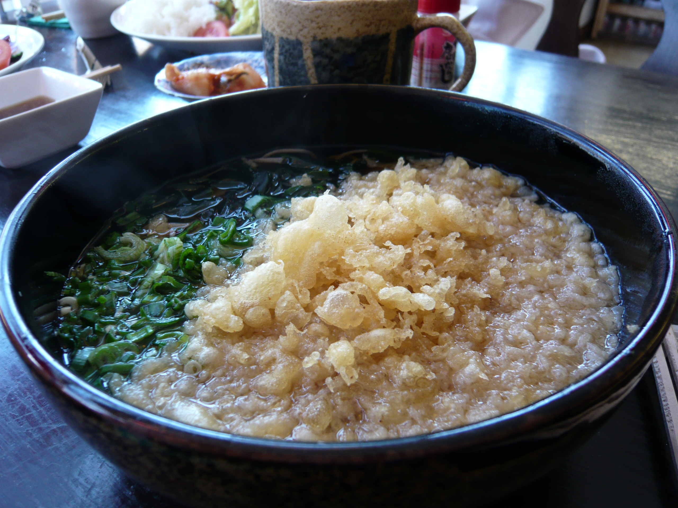 Soba noodles in soup with *tons* of tempura batter.